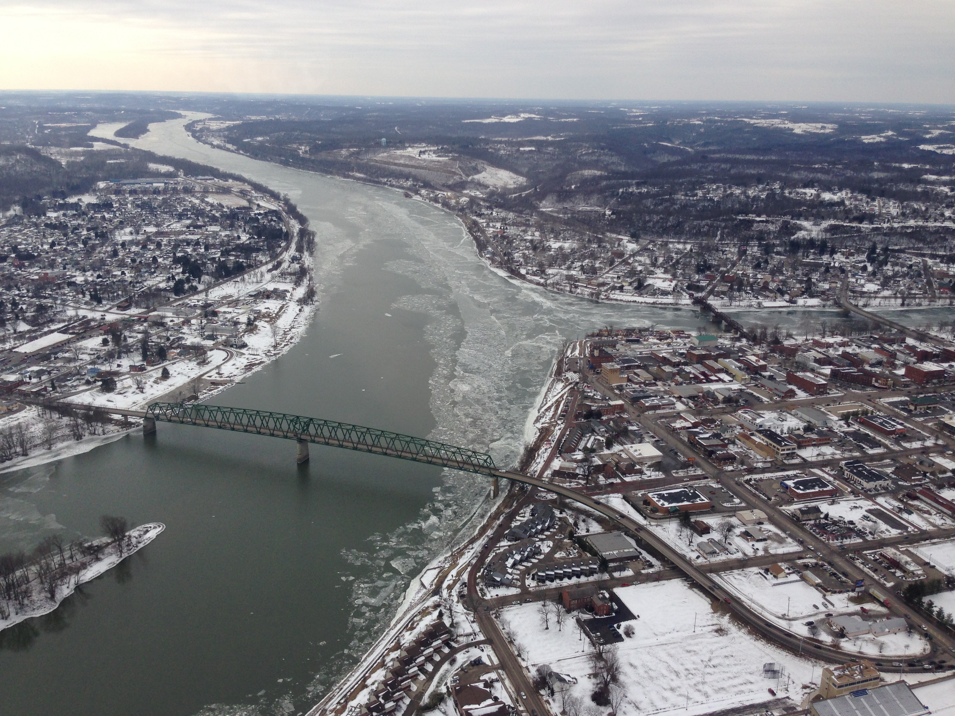 Aerial View of the Ohio and Muskingum Rivers at Marietta, Ohio. January 31, 2015